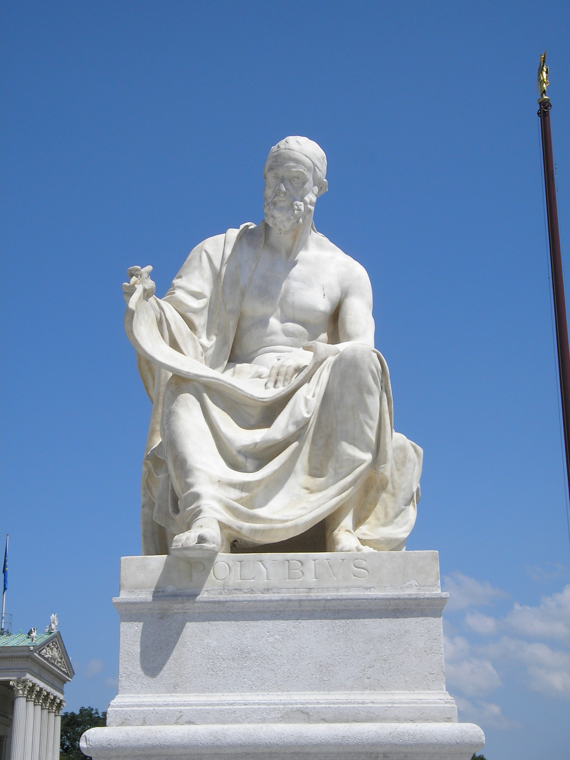 Austria, Vienna, Austrian Parliament Building